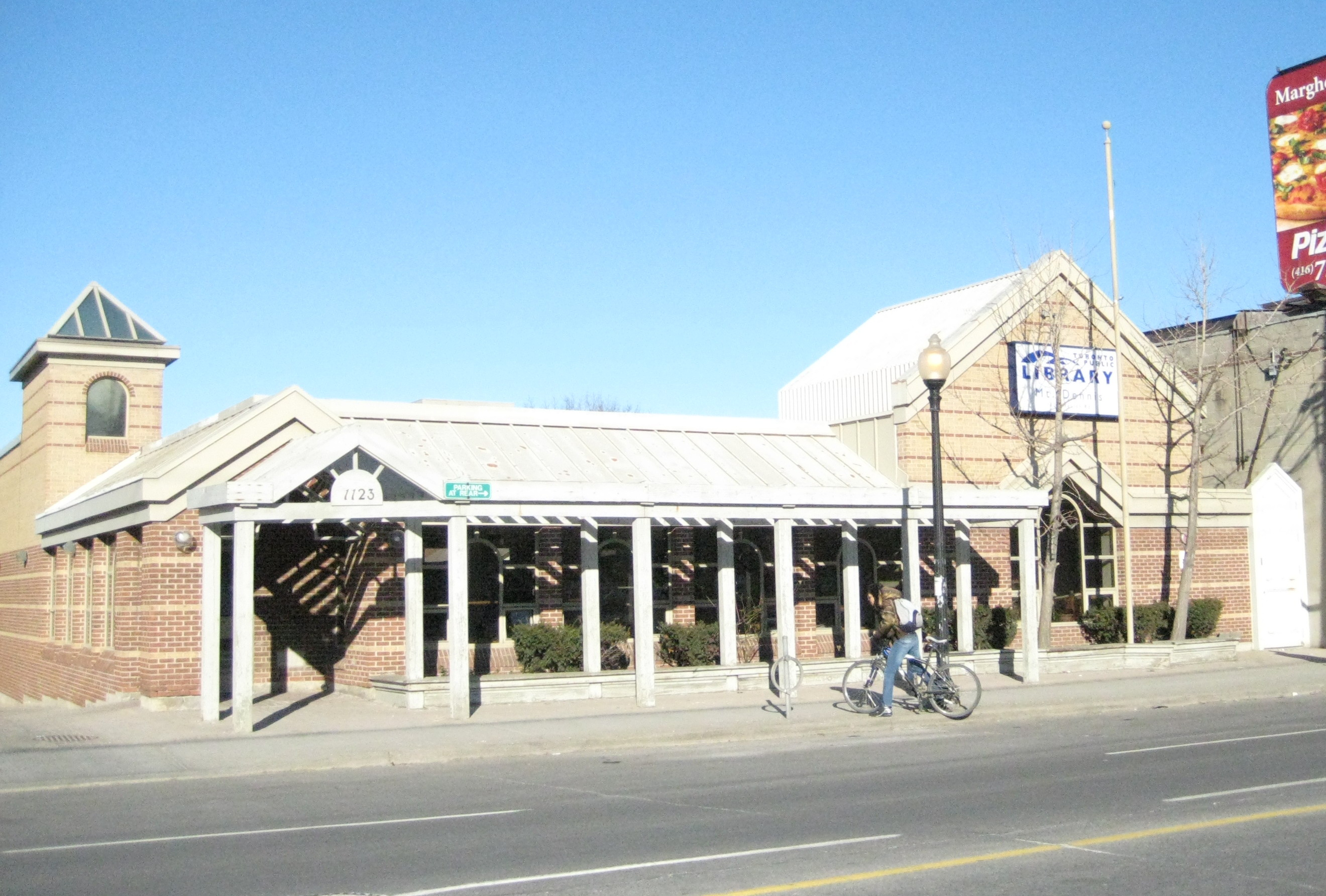 TPL Mount Denis